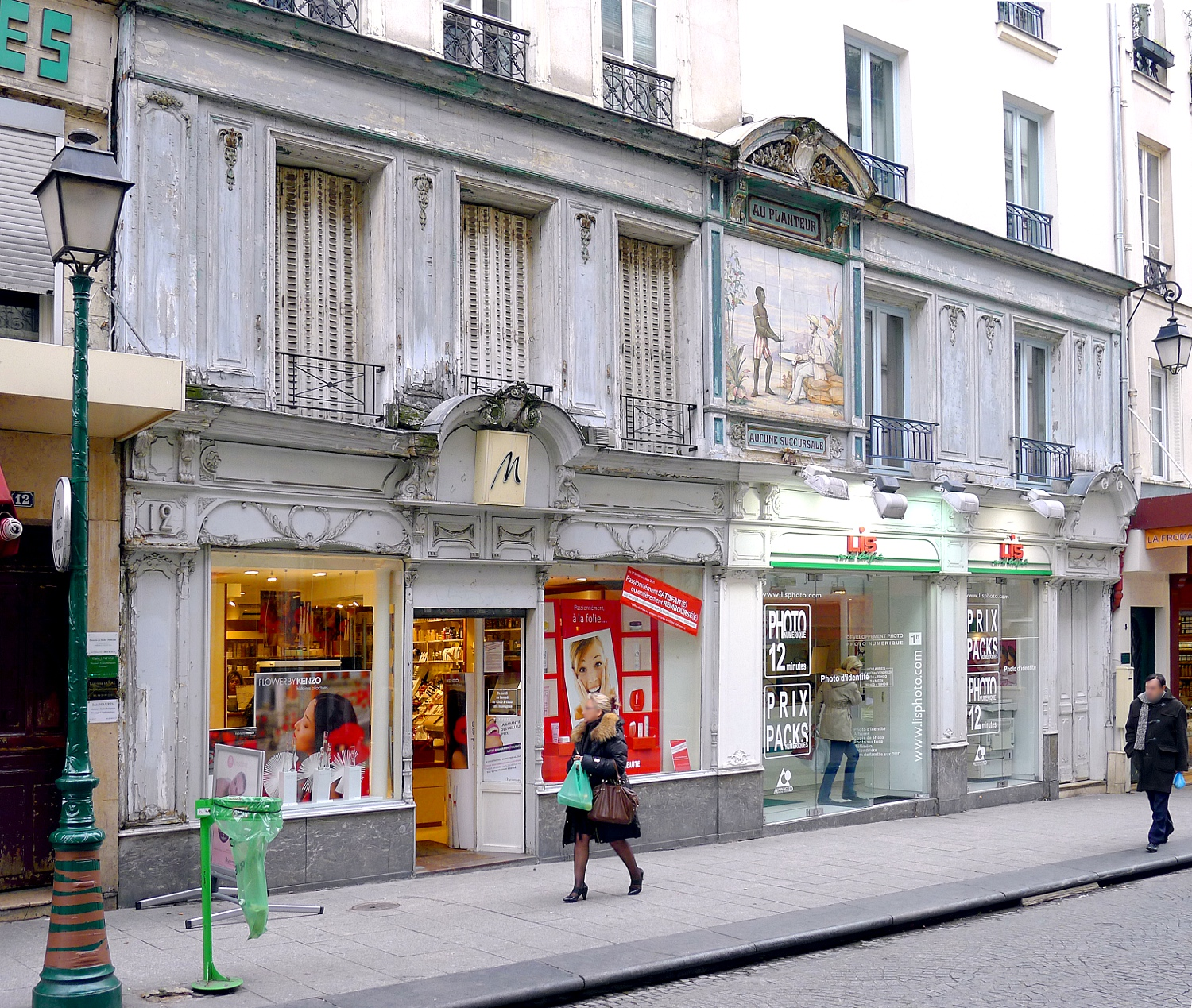 Montorgueil street – Paris